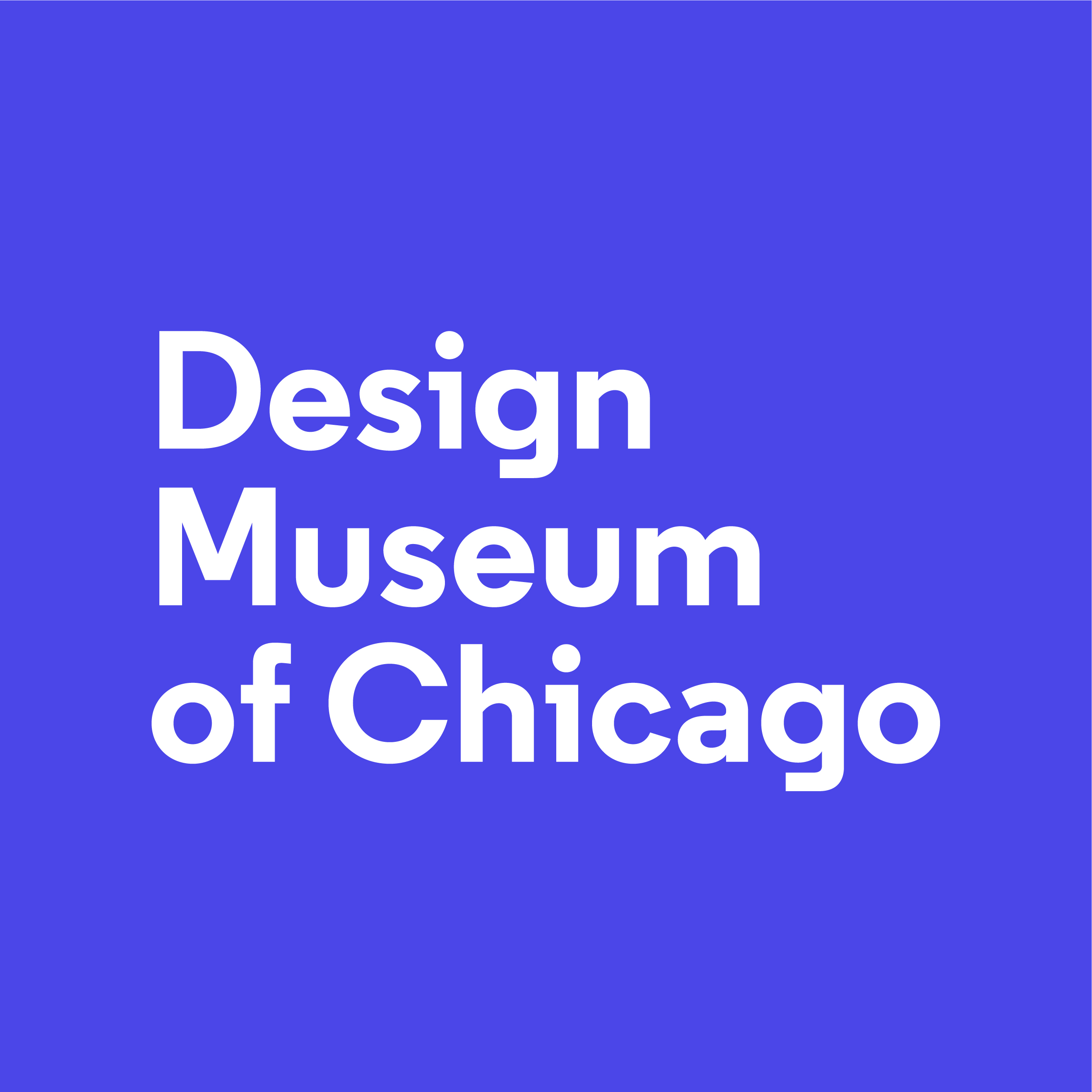 Official Design Museum of Chicago Logo